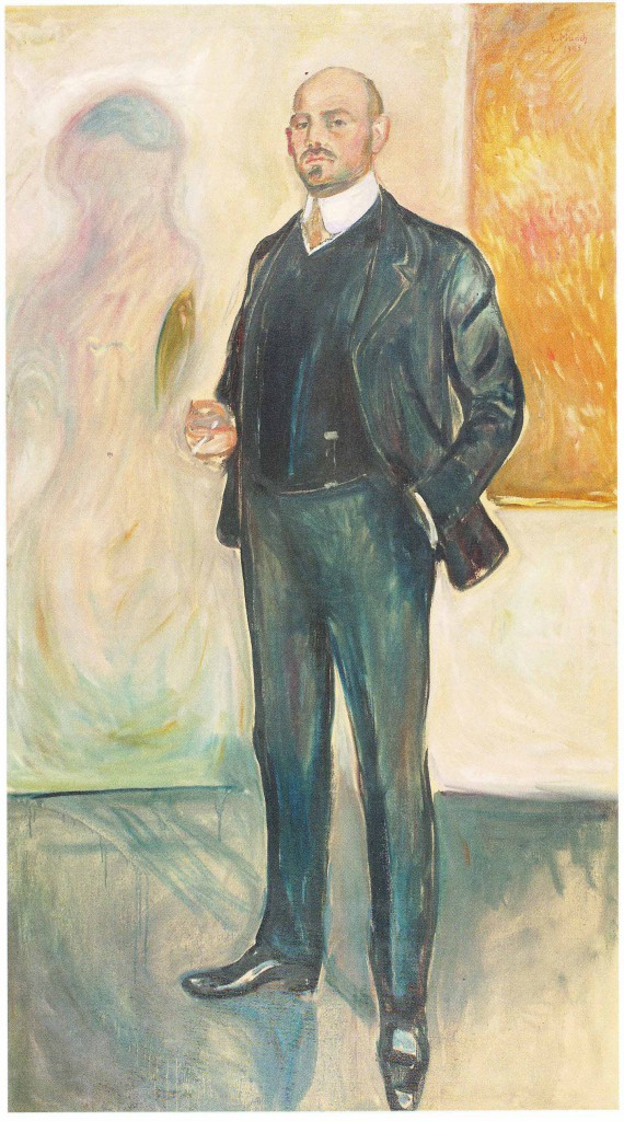 Walter Rathenau by Edvard Munch, 1907, oil on canvas, Bergen Kunstmuseum